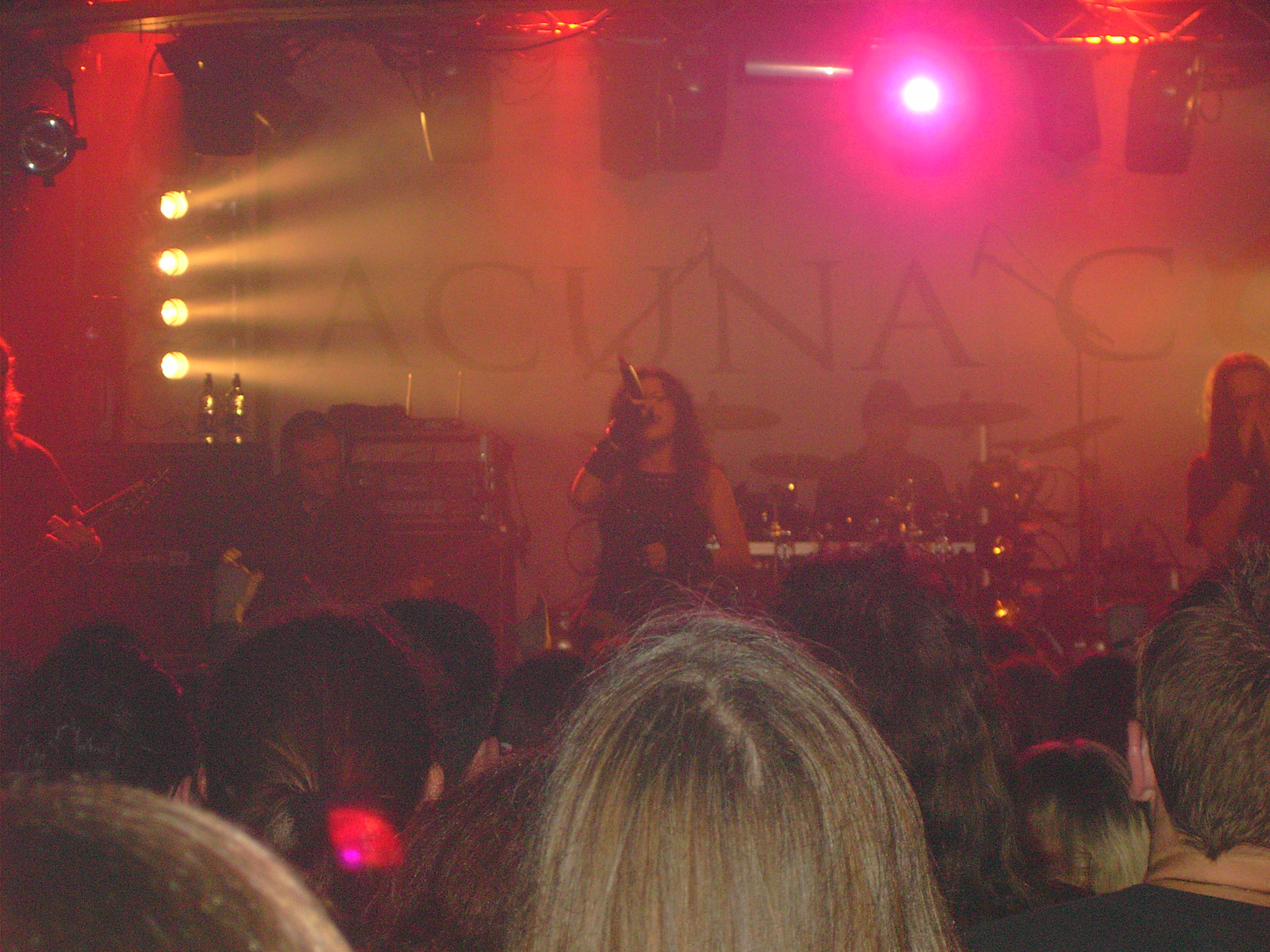 Took the photo myself (Neostinker 18:05, 22 June 2006 (UTC))